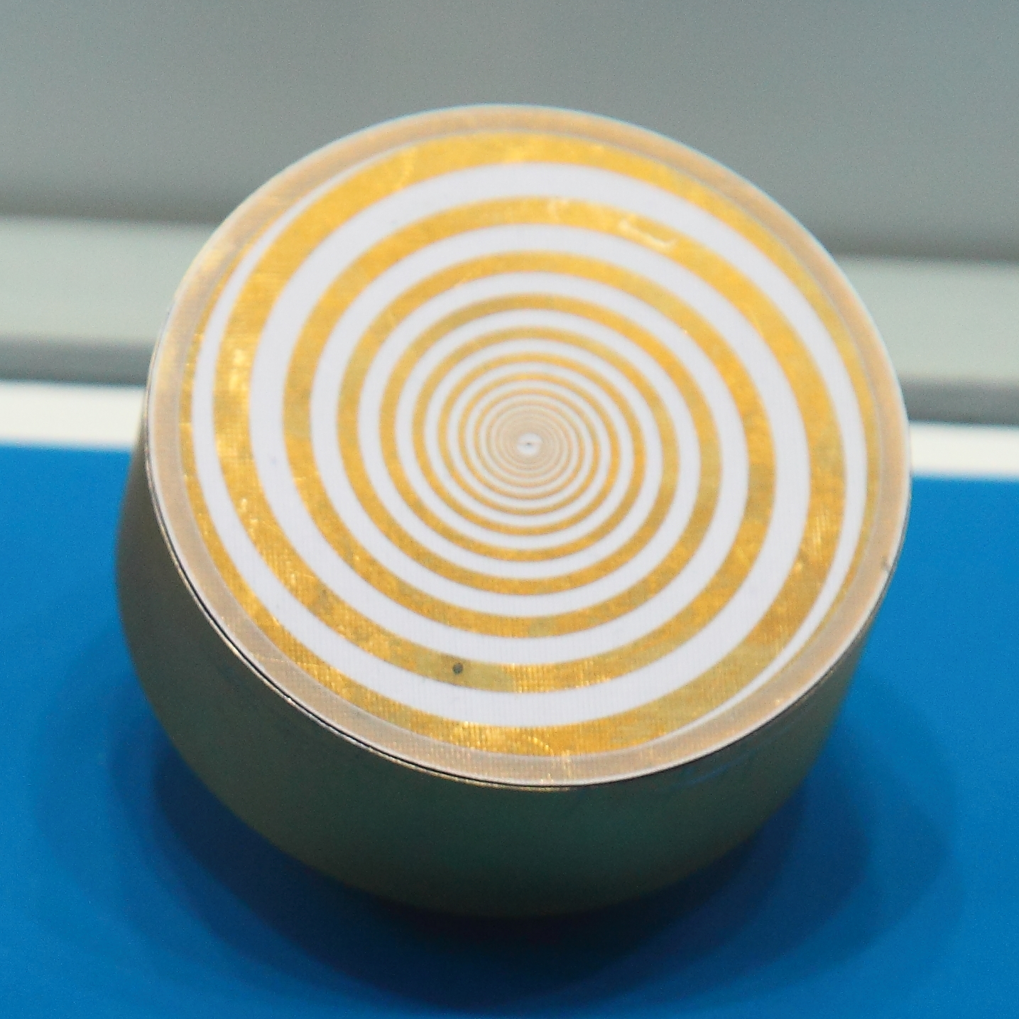 ILA Berlin Air Show 2012 ; double polarization spiral antenna; ELT